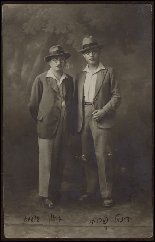 1 photograph : b&w, ; 90 X 138 mm.